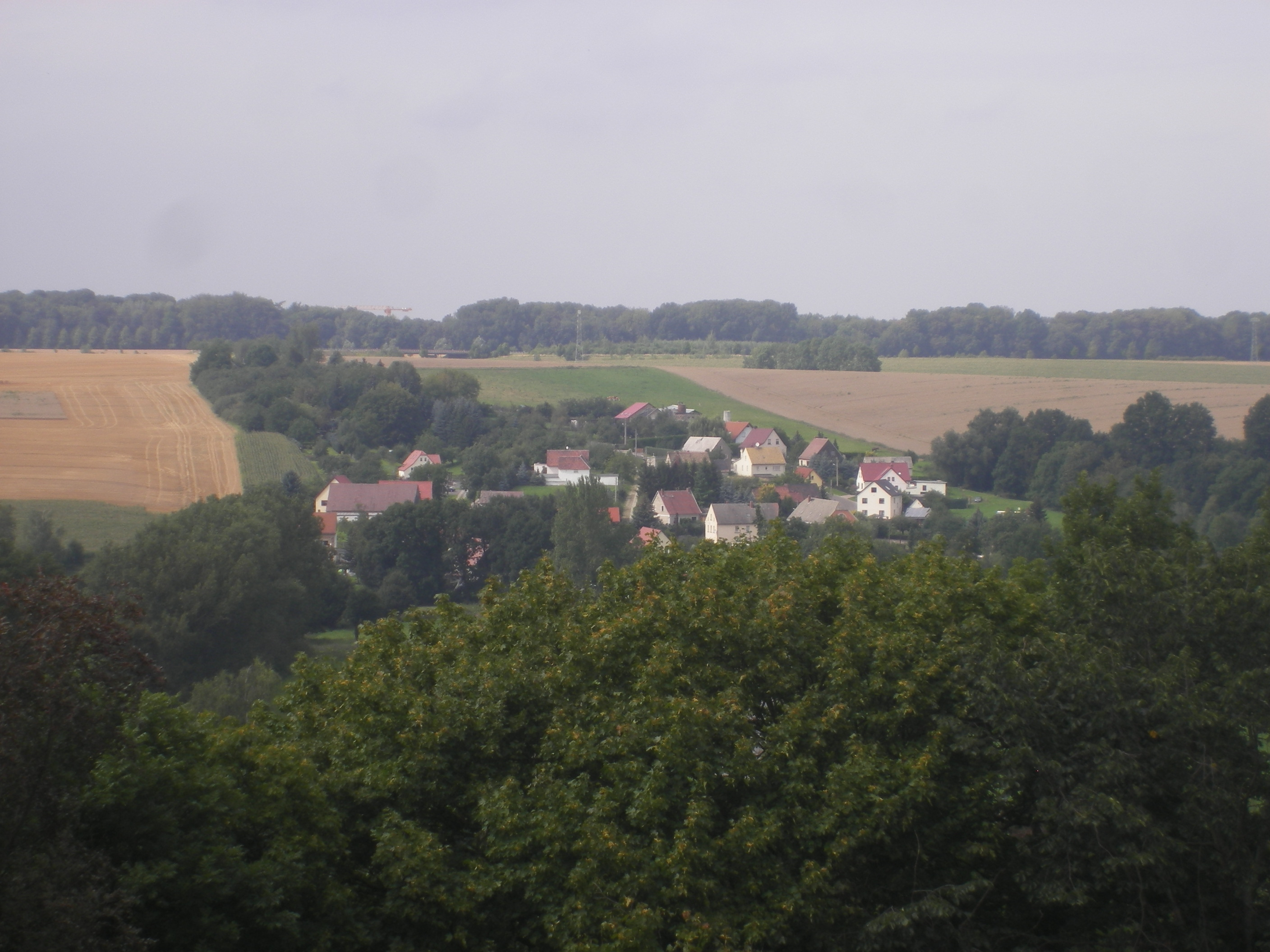 View over Zschechwitz, district of Altenburg/Thuringia